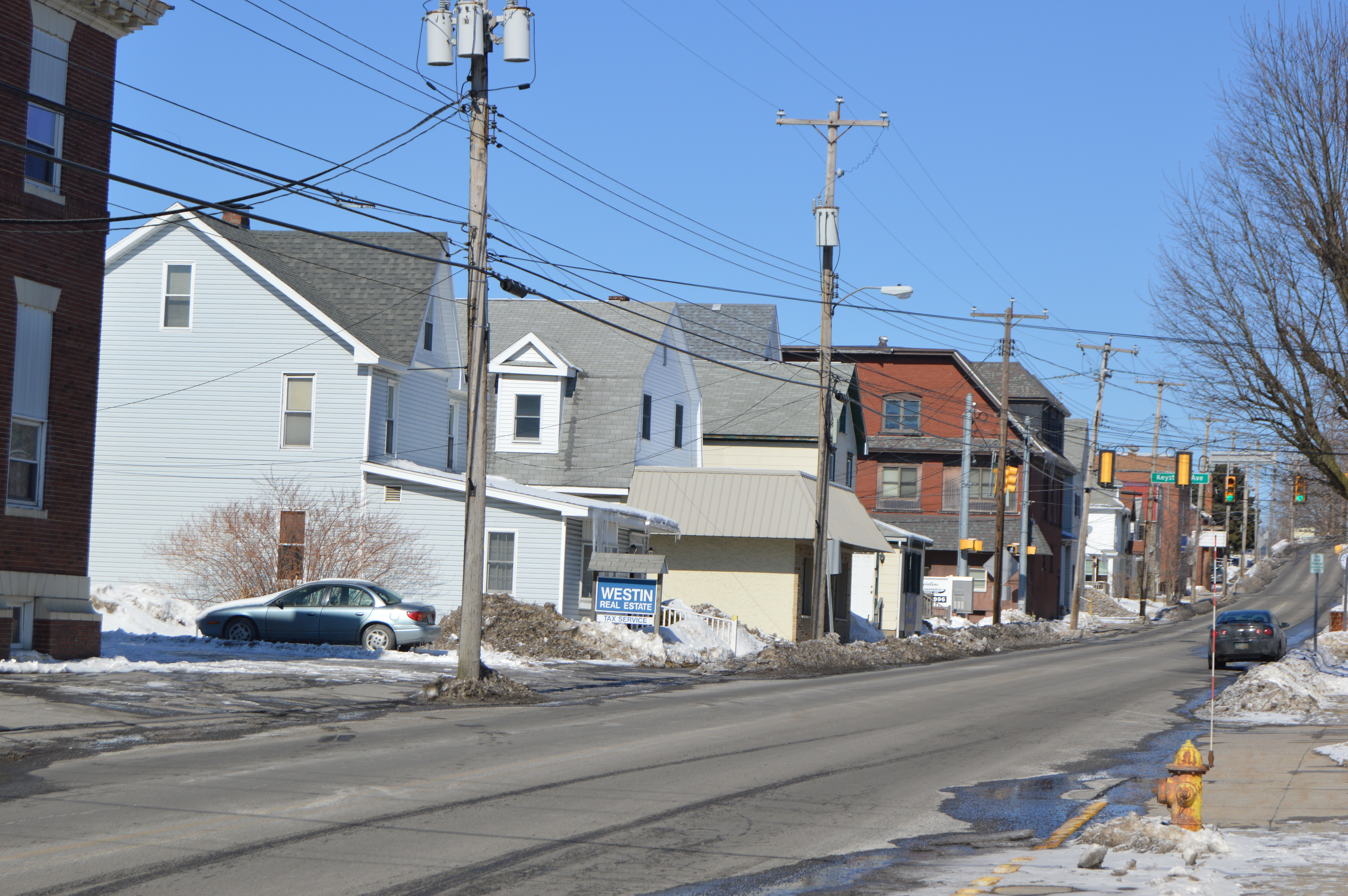 Houses on the western side of Second Street (Pennsylvania Route 53), looking north from the Ashcroft Avenue intersection, in Cresson, Pennsylvania, United States.